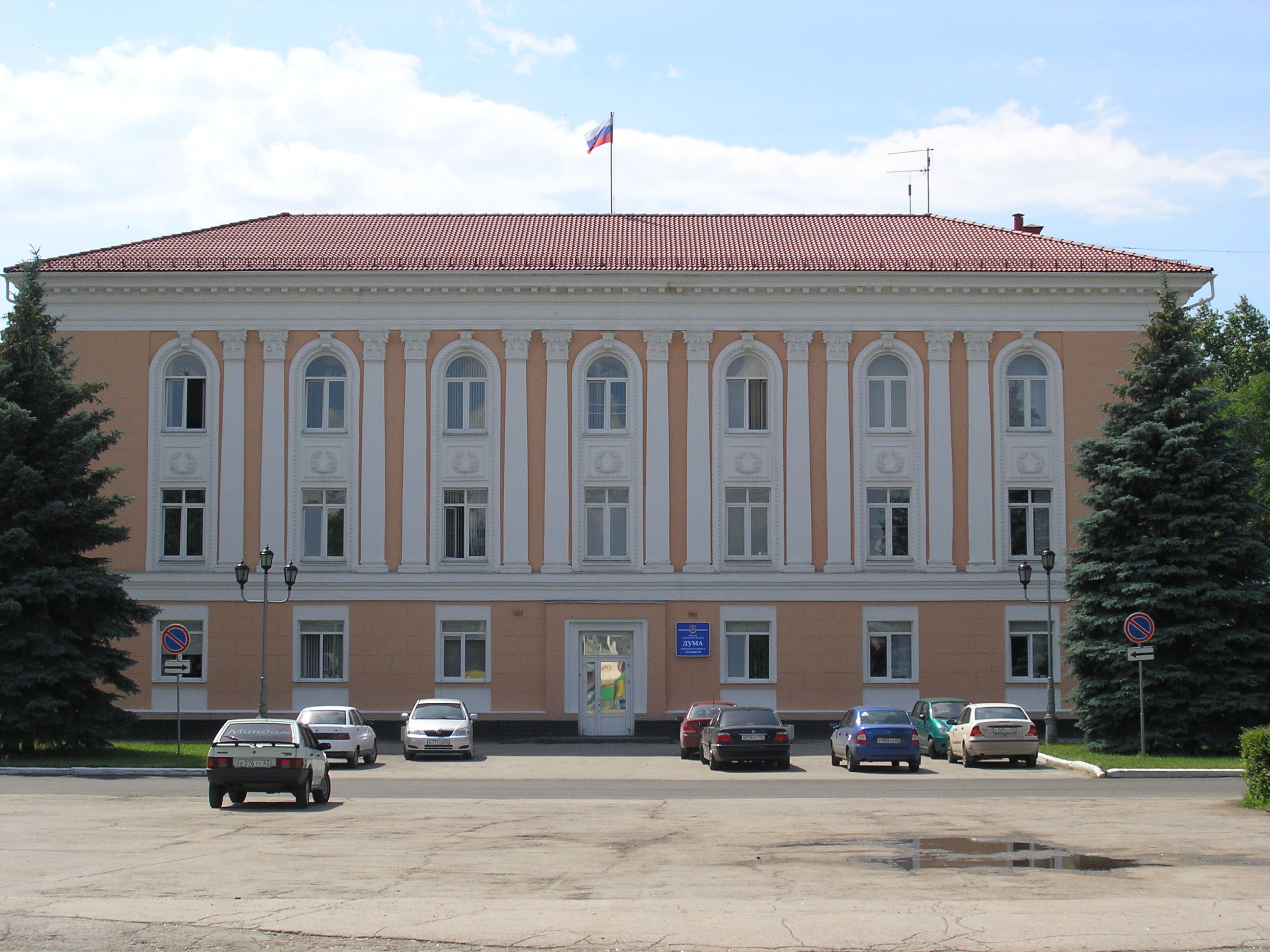 Duma of city Togliatty, Russia. The former building of the City Committee of the Communist party of the Soviet Union in Togliatti